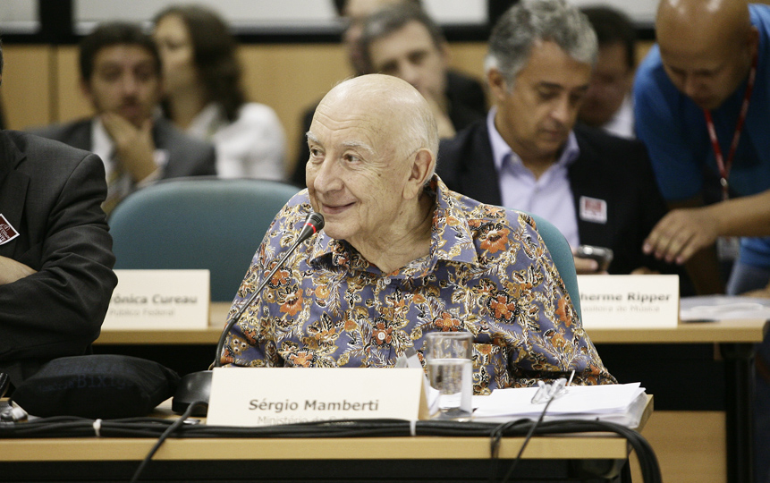 Sérgio Mamberti; and the executive secretary. Photo: Marina Ofugi